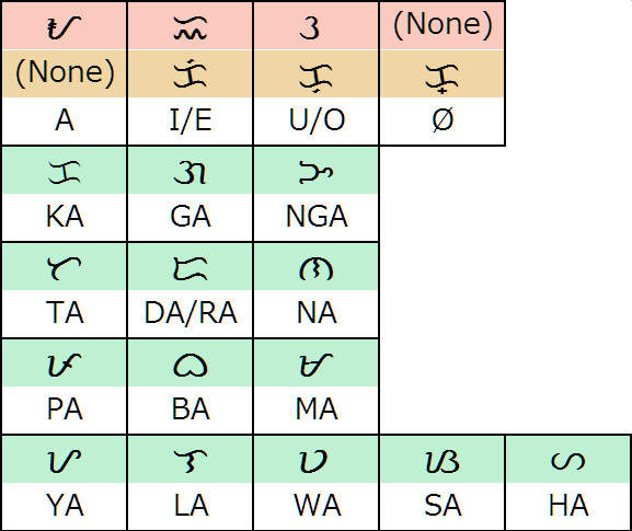 baybayin traditional form